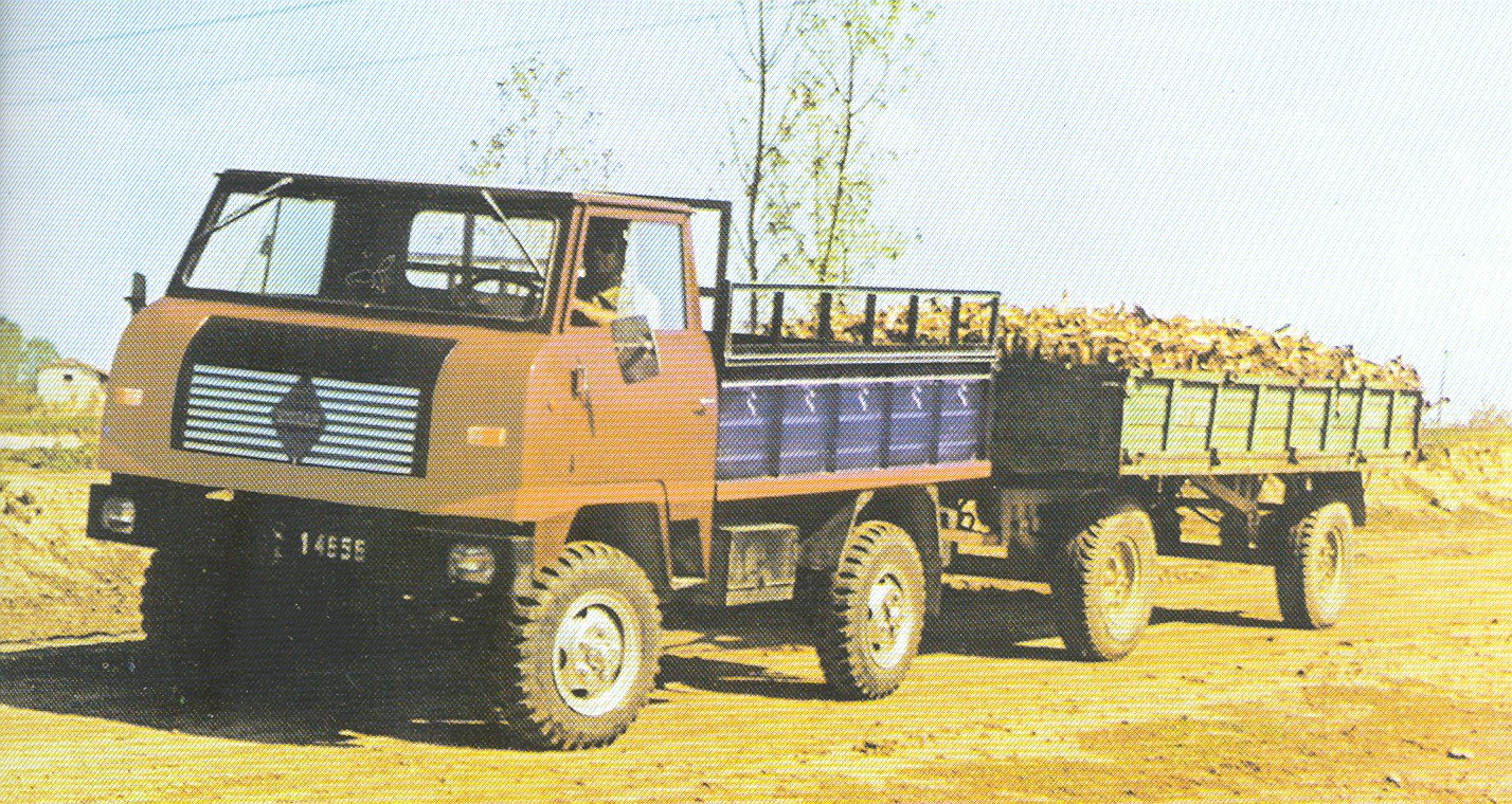 Image of AutoDiana Unicar published in my second book about Greek Industry ("Made in Greece", Typorama, Patras 2003), cited in the article.